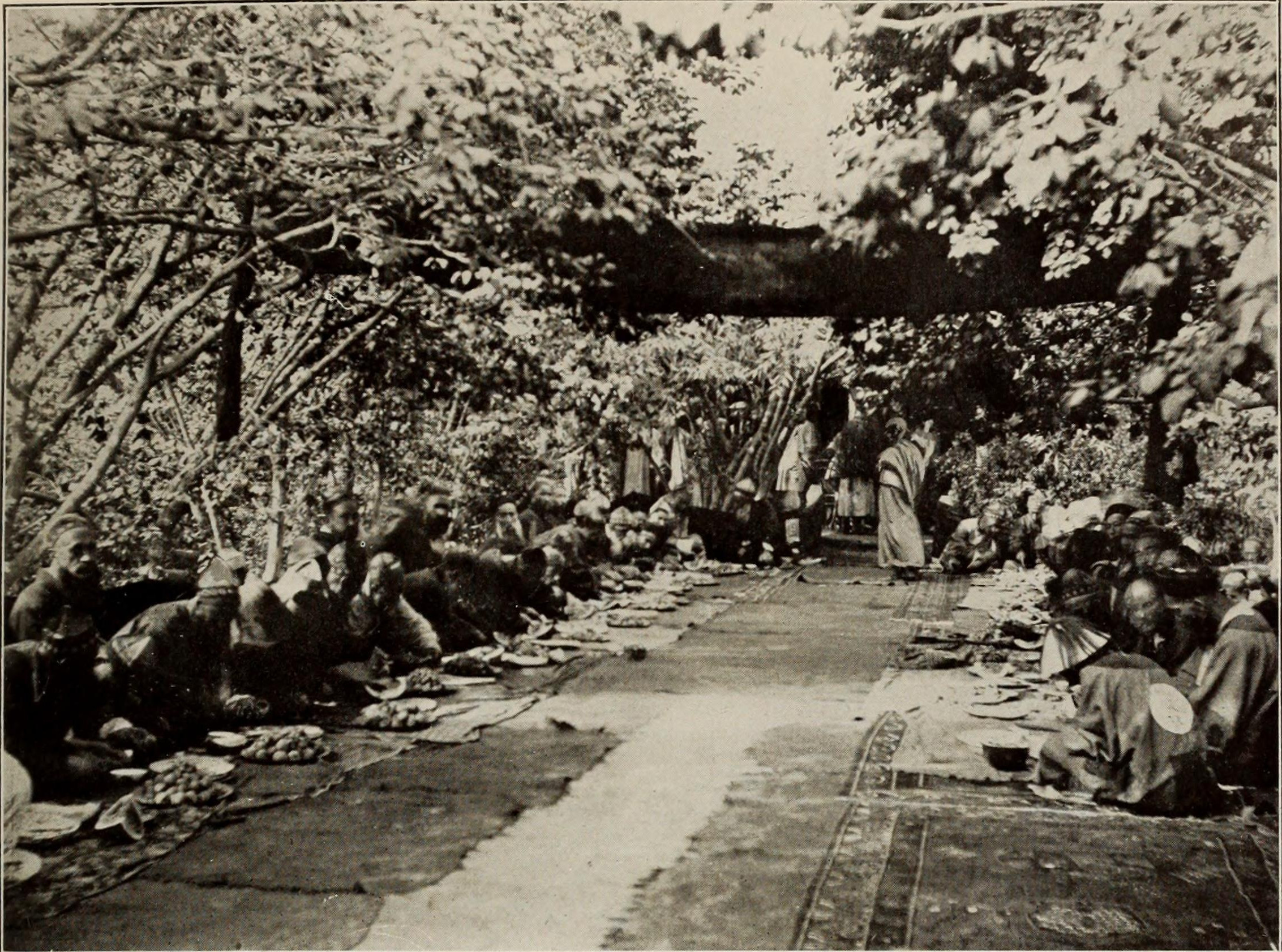 Caption : "Amban's Guests festing on terrace leading to 'my' pavilion in Nar-Bagh"